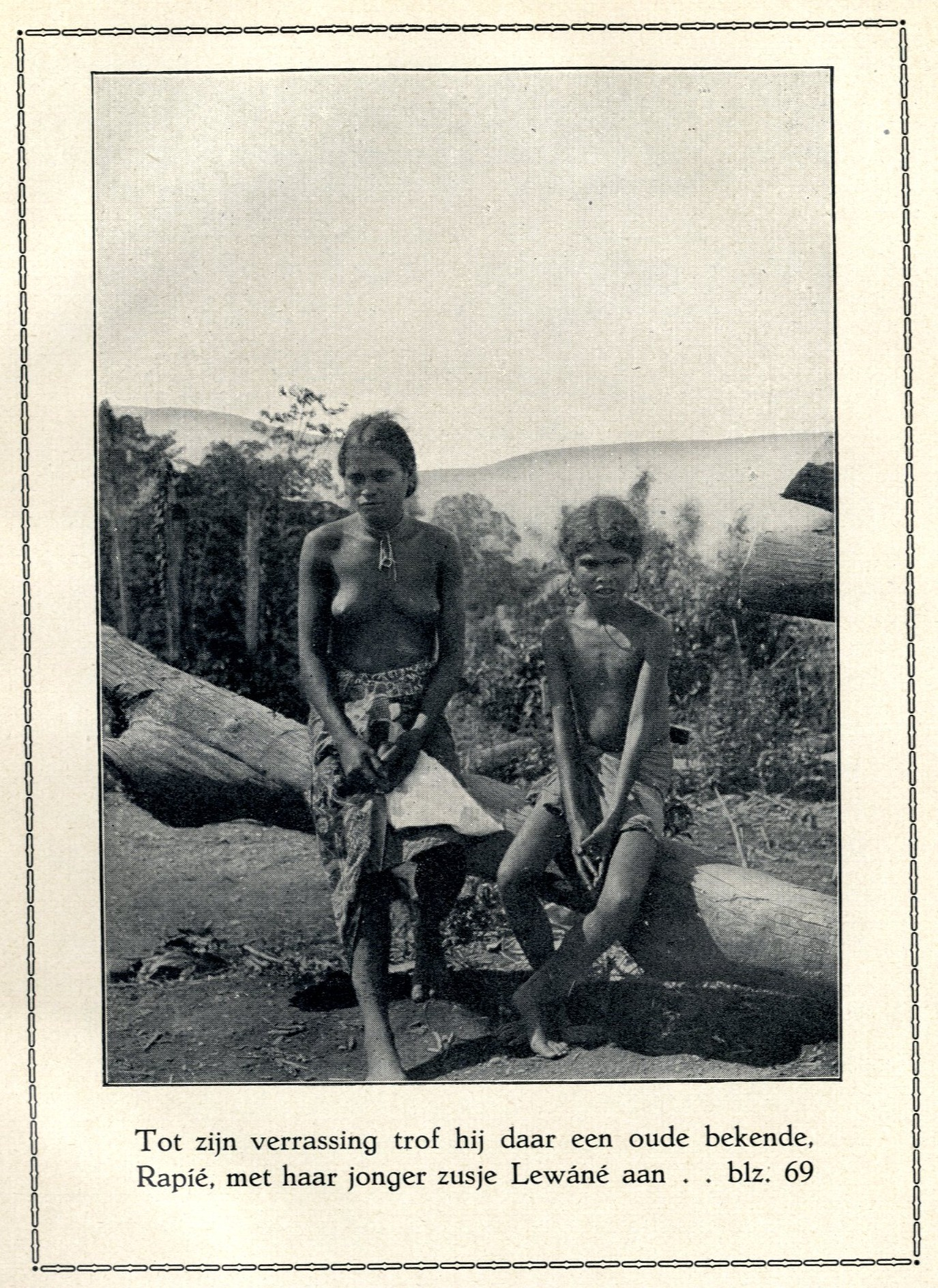 Alfur people on Ceram